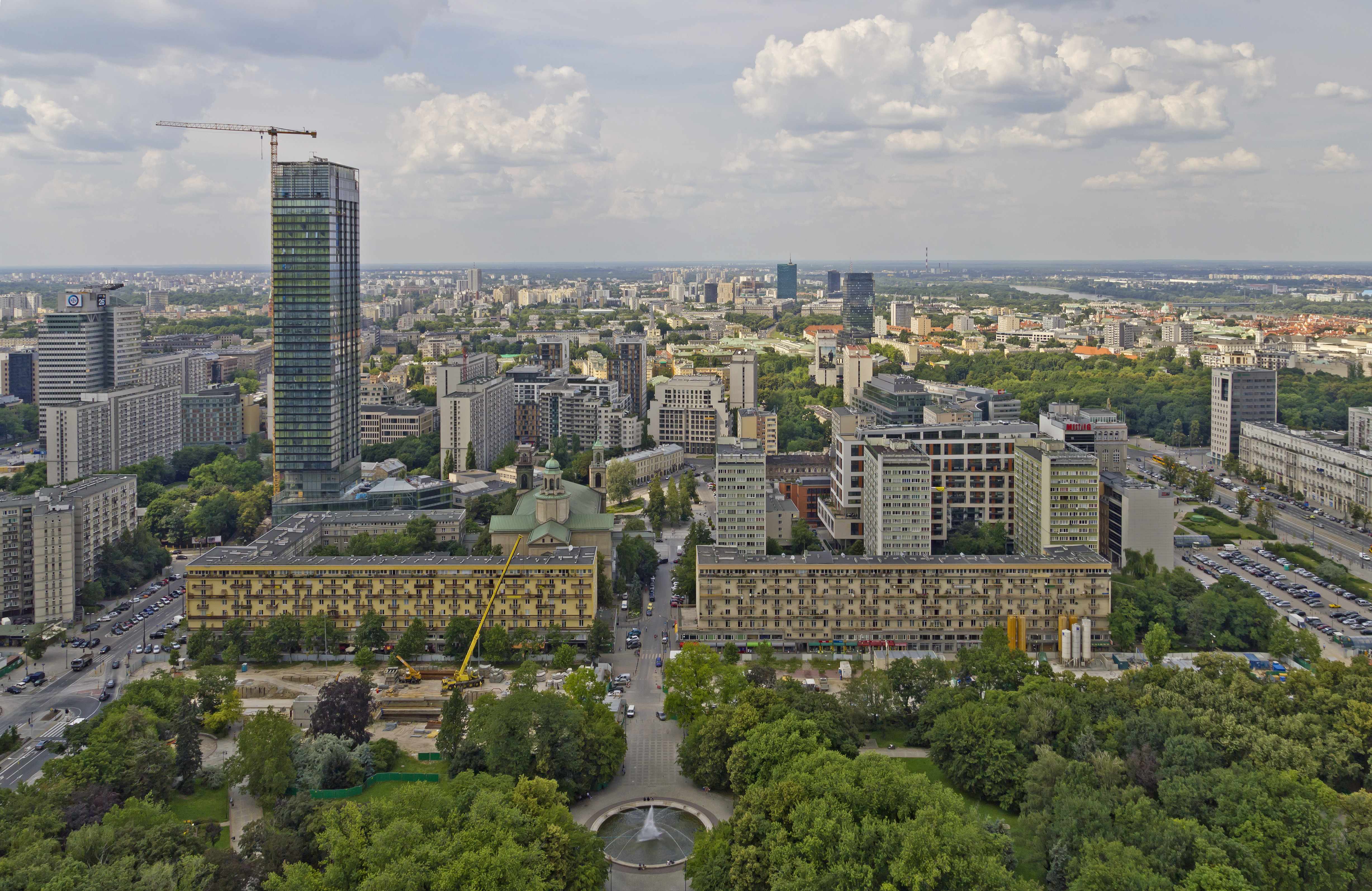 View from the viewing desk of the Palace of Culture and Science in Warsaw (Poland)